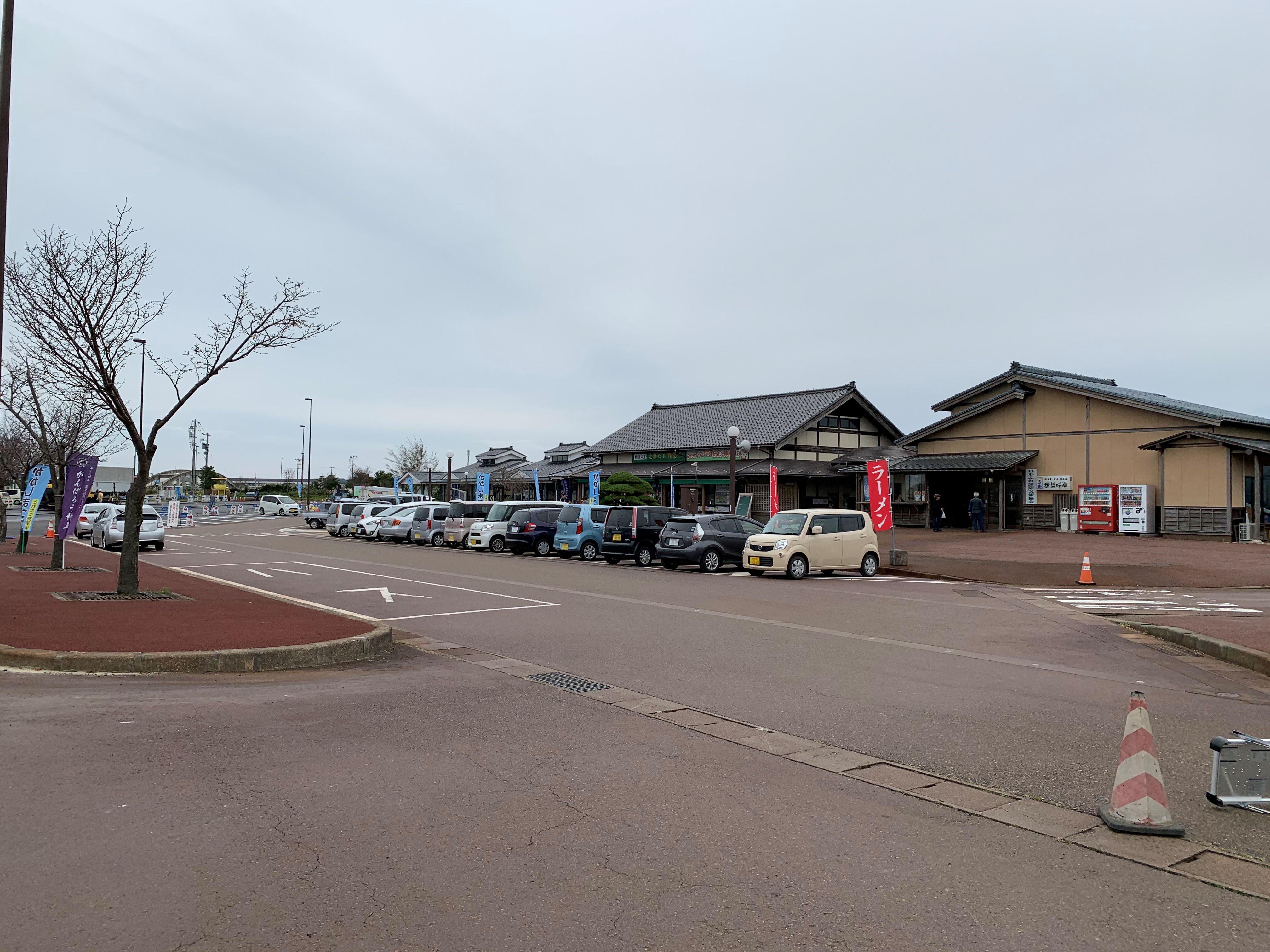 Kamihayashi, Michi no Eki (Roadside Station), Niigata, Japan. Took photo in October 2019.